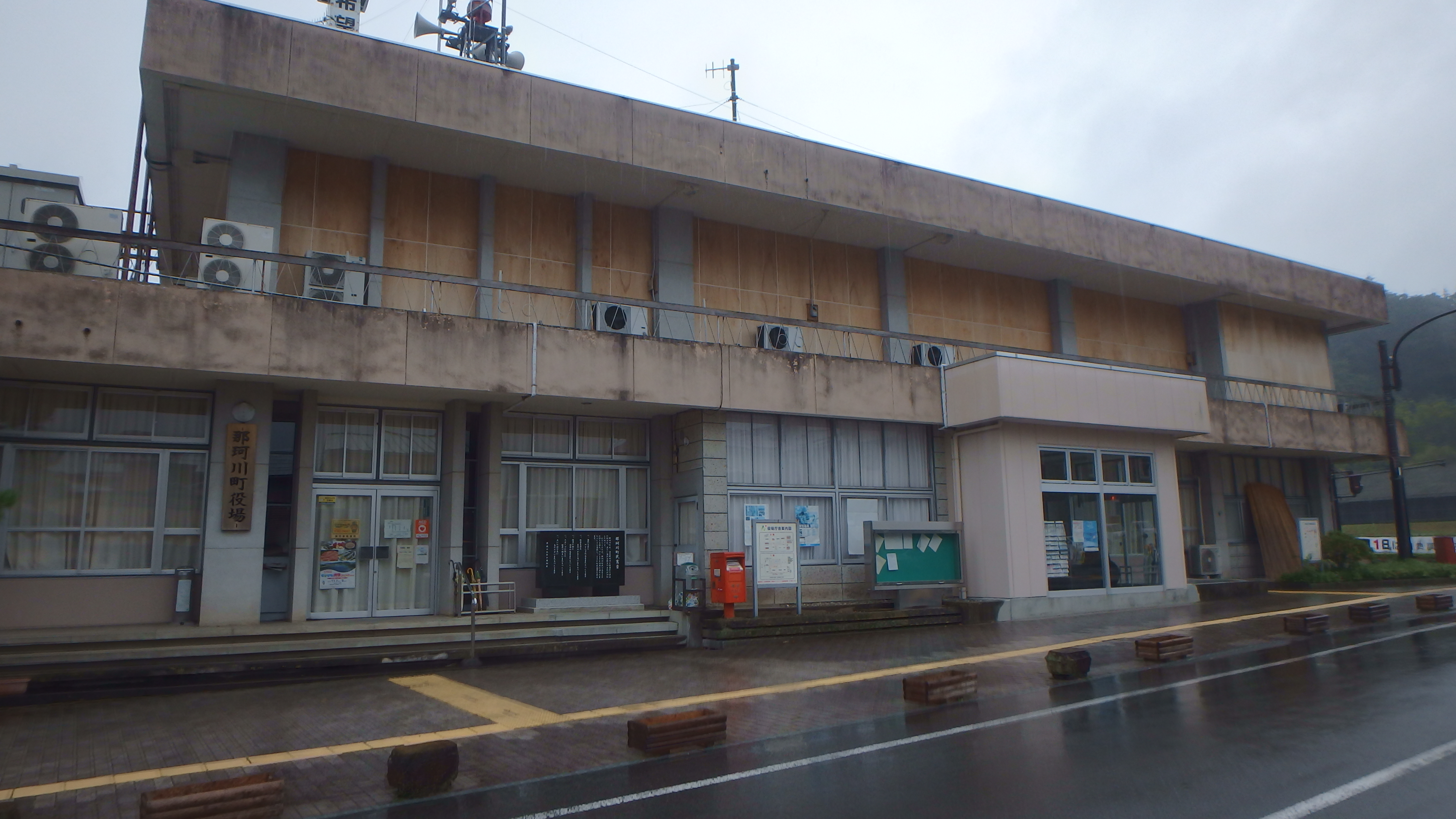 Nakagawa town hall,Tochigi prefecture,Japan